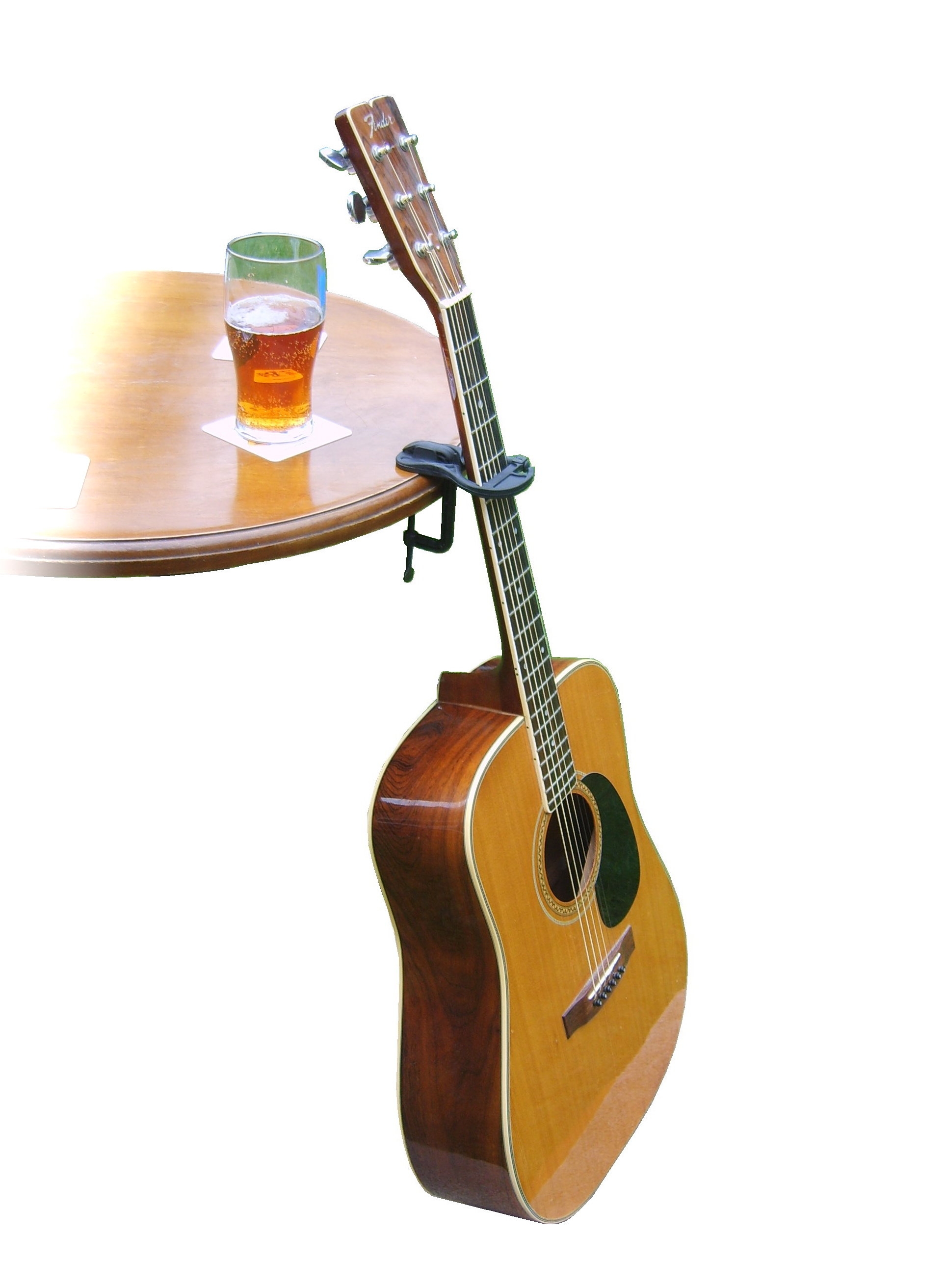 The Pub Prop in use - supporting a guitar against the edge of a traditional pub table